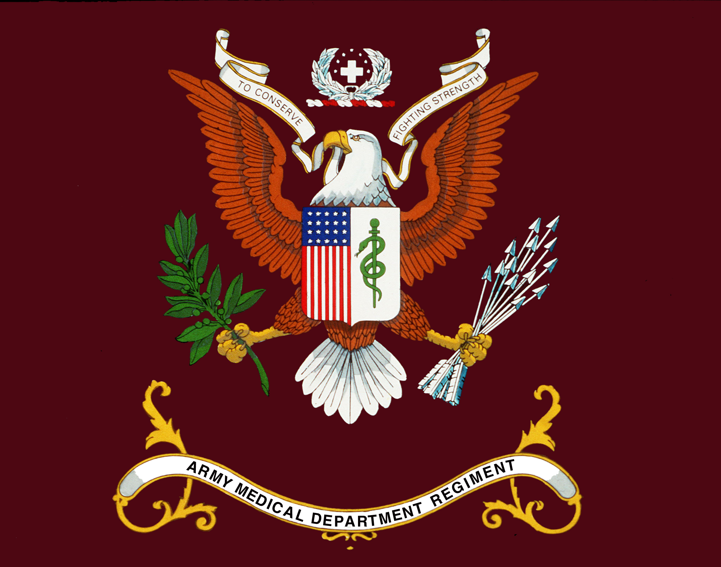 The Regimental flag displays a distinctive design developed for the U.S. Army Medical Department Regiment. The Regimental Distinctive Insignia (RDI) was designed by The Institute of Heraldry, and is one of the oldest crests in the Army today. The 20 stars represent the number of states in the Union on April 14, 1818, the date of enactment of the congressional authorization by which the Medical Department of the Army was first organized. The alternating red and white stripes on the left side of the shield are the 13 stripes of the American Flag representing the 13 original United States colonies. The green staff is the staff of Aesculapius, son of the Greek mythological god Apollo and the first healer. Green is the color associated with the Medical Corps during the last half of the nineteenth century. The phrase, "To Conserve Fighting Strength" gives testimony to the AMEDD mission as combat multipliers and guardians of our nation's strength and peace. The RDI is known as the "shield" when located on the Flag or the Coat of Arms. The shield is superimposed on the chest of the American eagle.